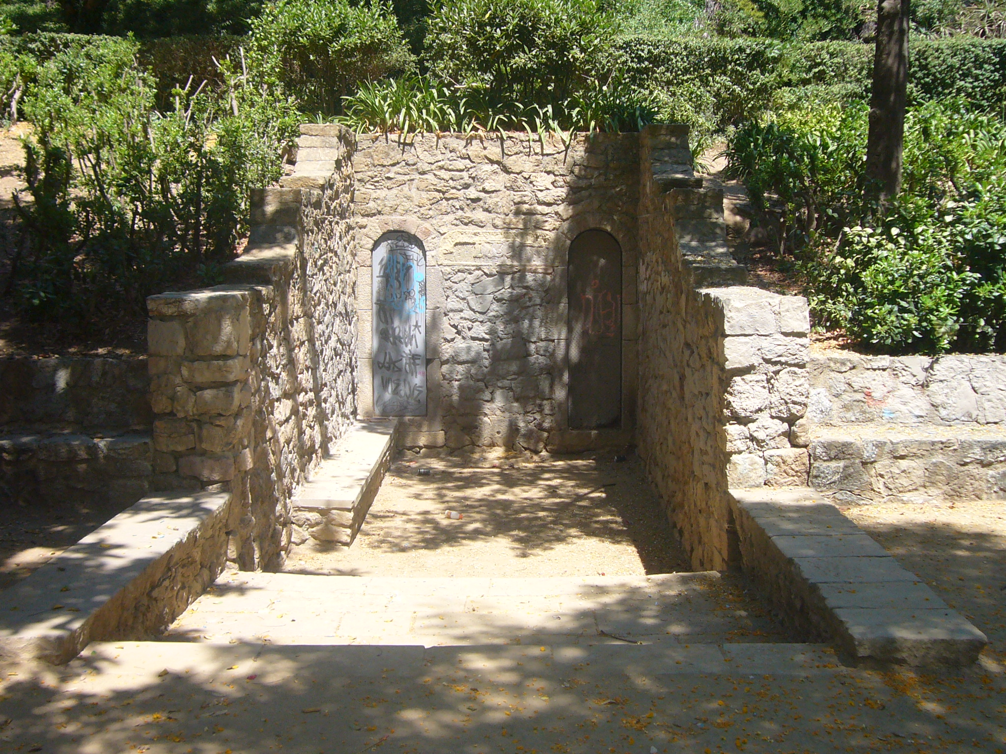 Parc del Guinardó